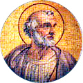 Phantasy-image of Pope Leo I from the Pope-Gallery of San Paolo fuori le Mura. 19th century.